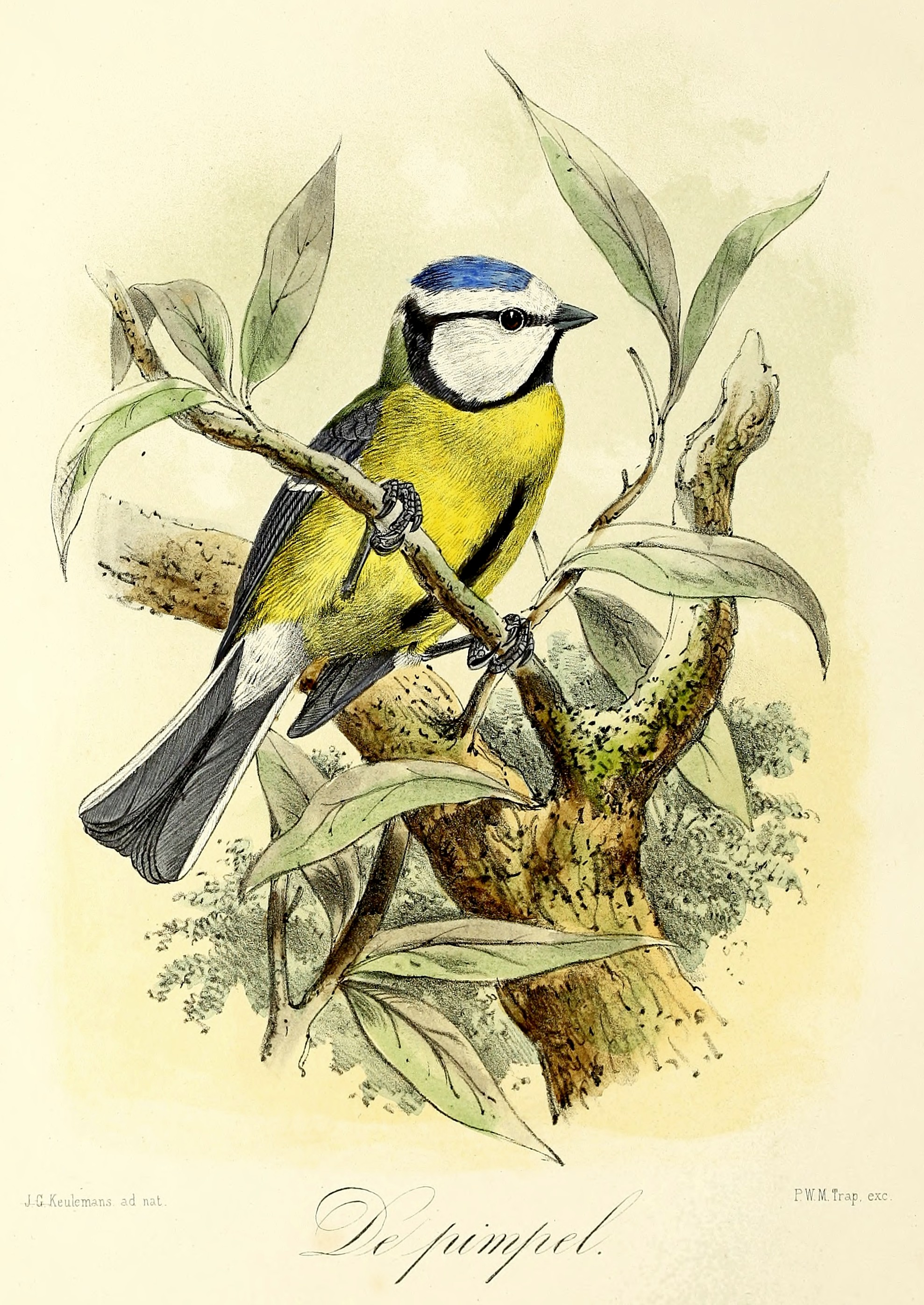 « Parus caeruleus » = Cyanistes caeruleus (Eurasian blue tit)